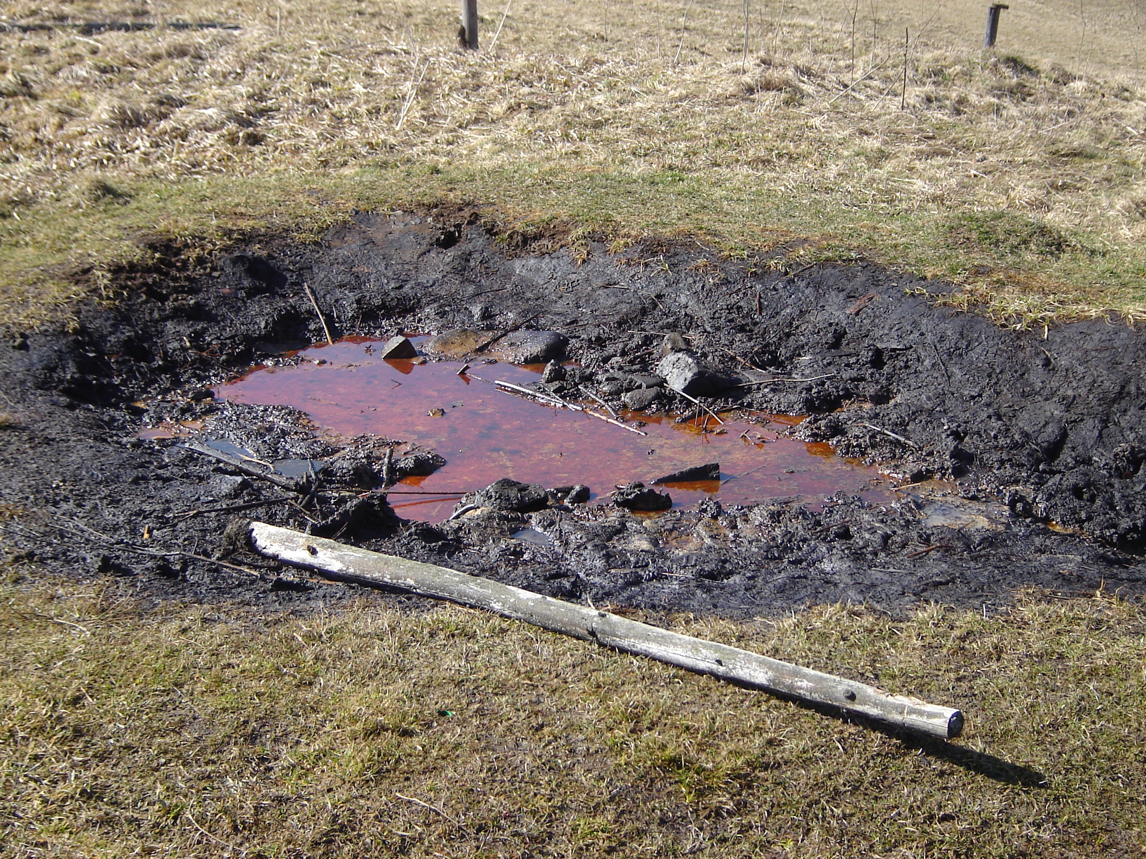 Natural oil (petroleum) seep near Korňa, Kysucké Beskydy, Western Carpathians, Slovakia. Flysh belt.